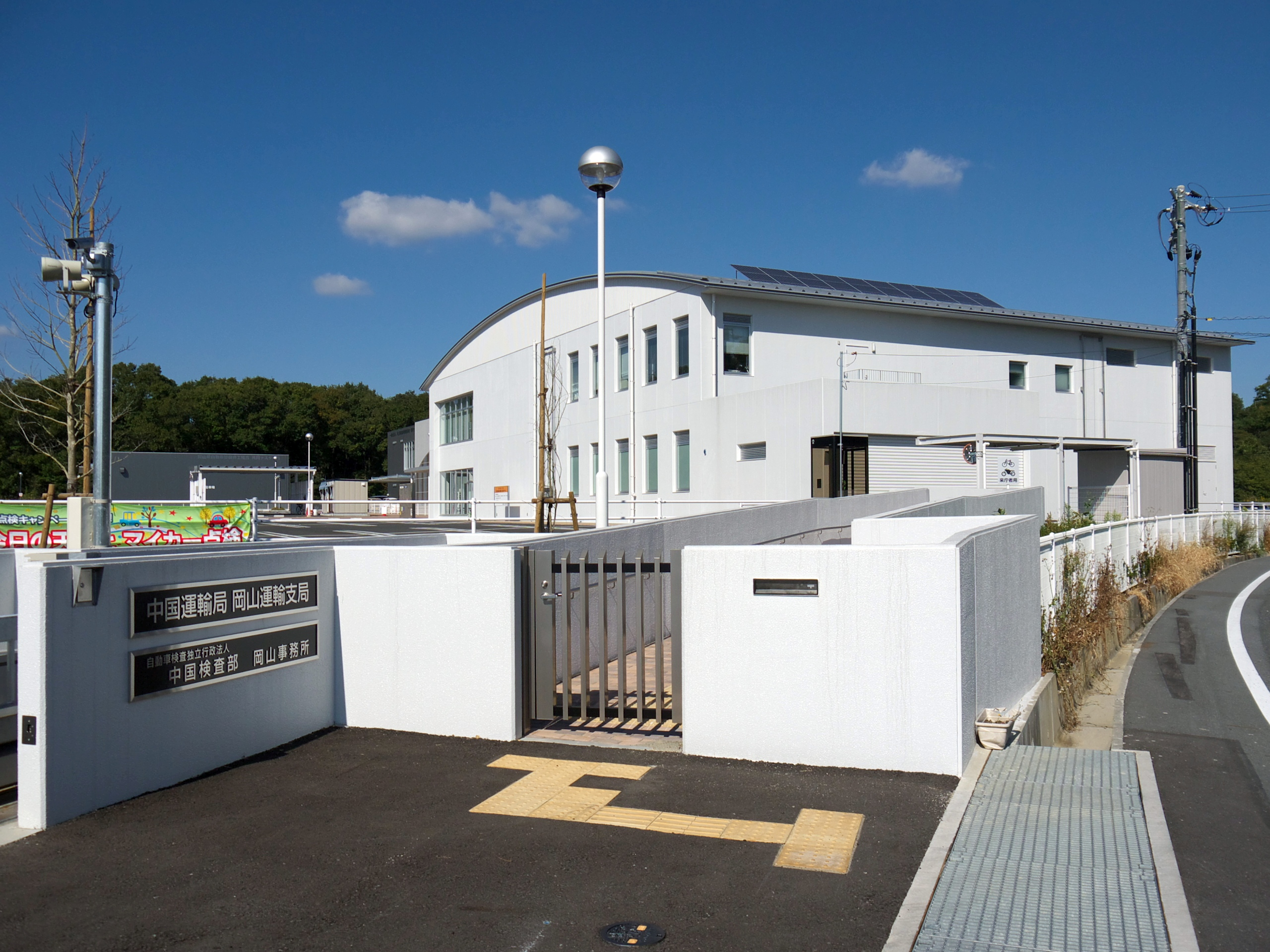 Chugoku District Transport Bureau Okayama Transport Branch Office, and National Agency of Vehicle Inspection Okayama Branch in Okayama Research Park, Okayama